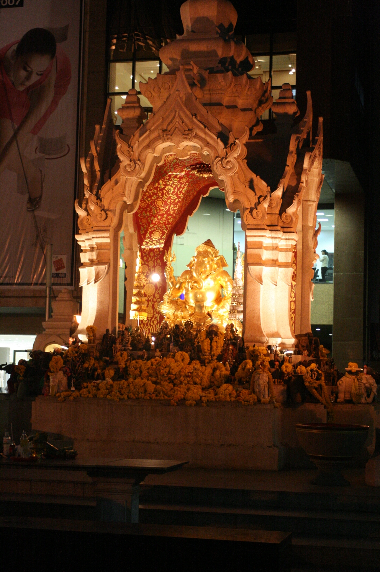 Ganesha in Thailand